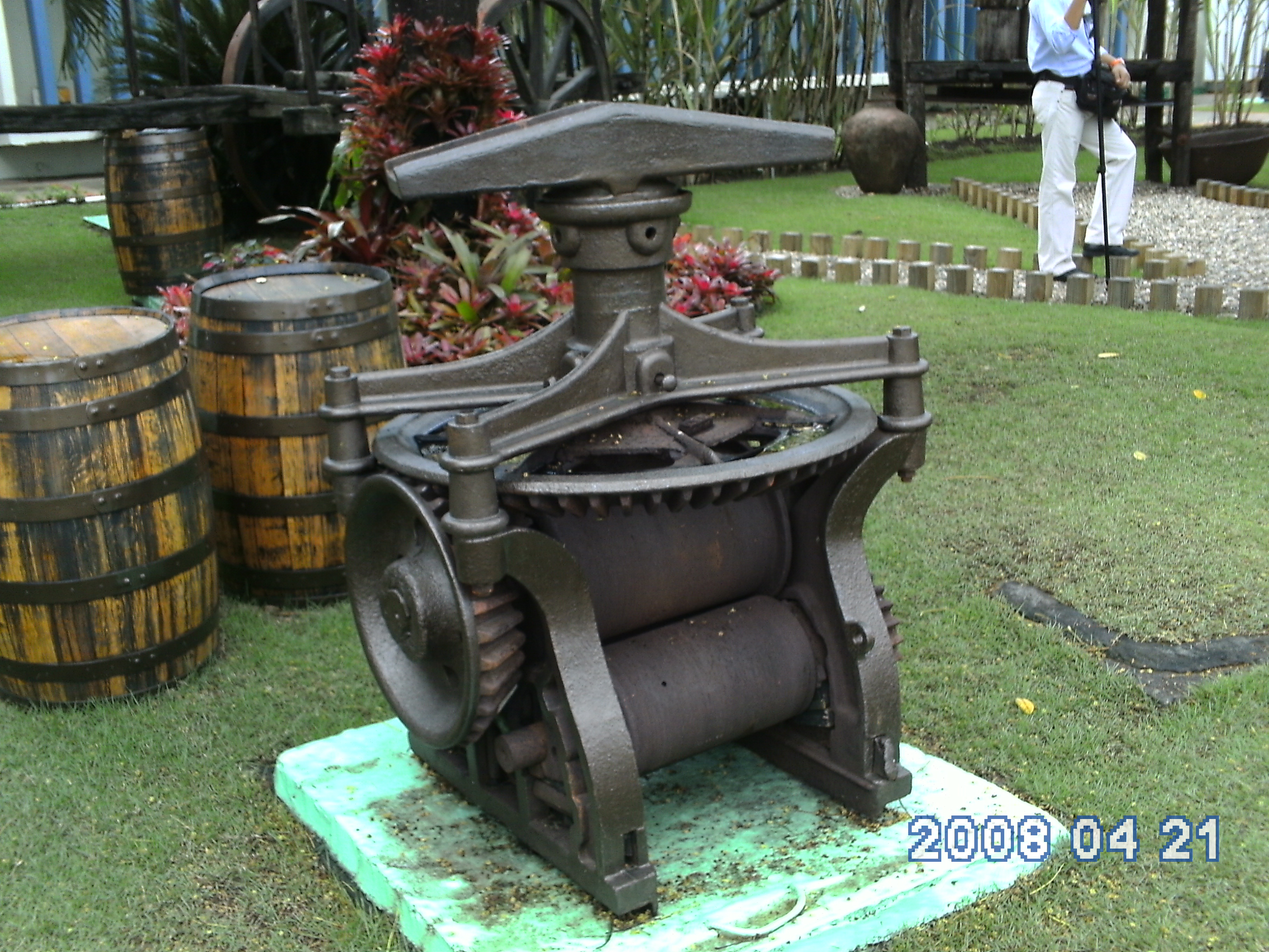 brugal_01.JPG